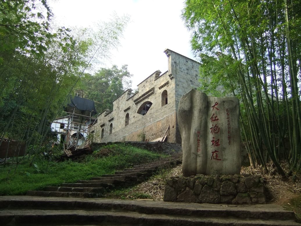 大红袍祖庭 - Place of Worship for Dahongpao(Big Red Robe Tea) - 2010.09